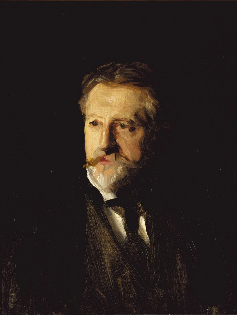 Portrait of Frederic Porter Vinton by John Singer Sargent, oil on canvas, Rhode Island School of Design Museum